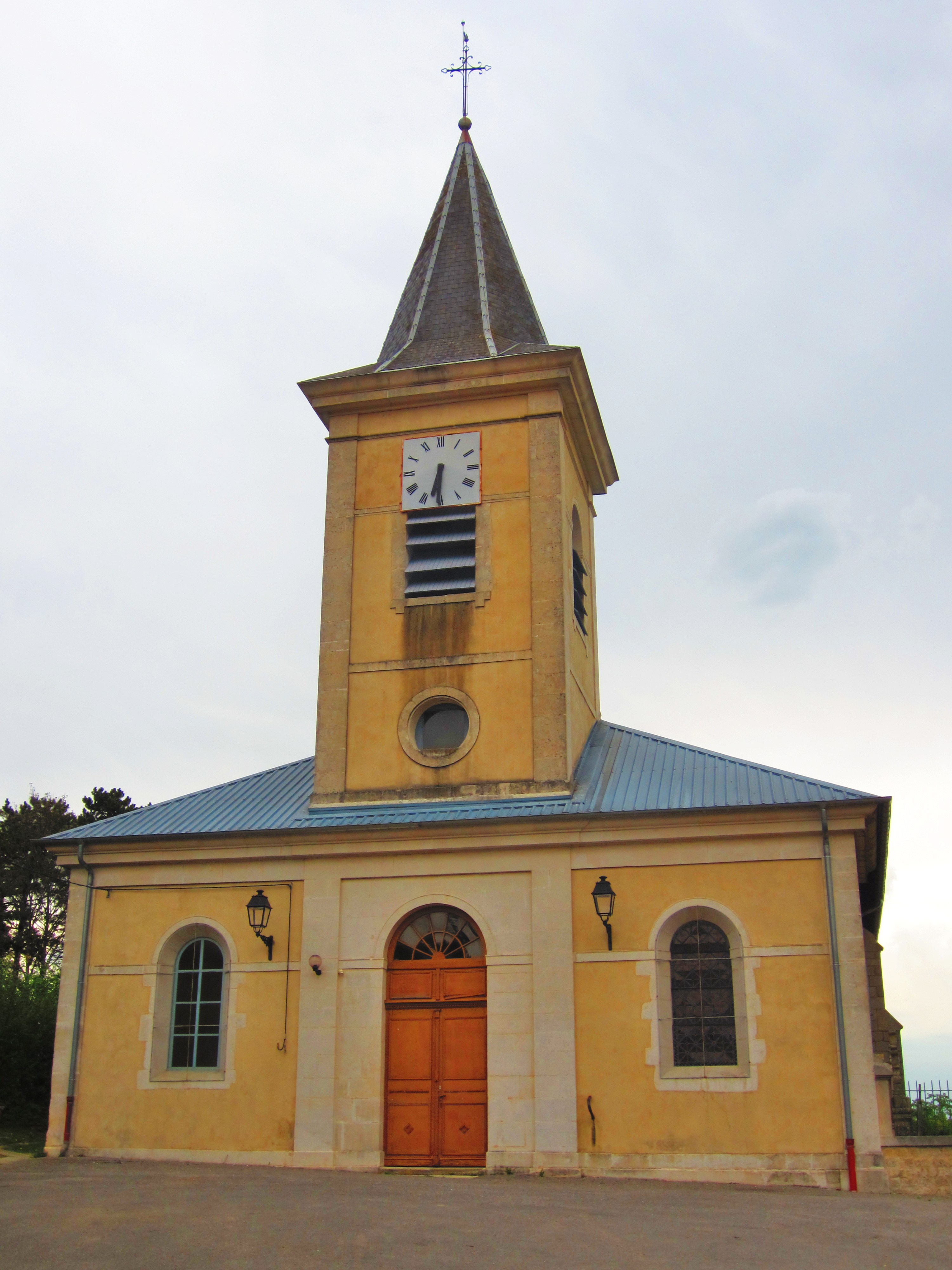 Vieville Cotes church